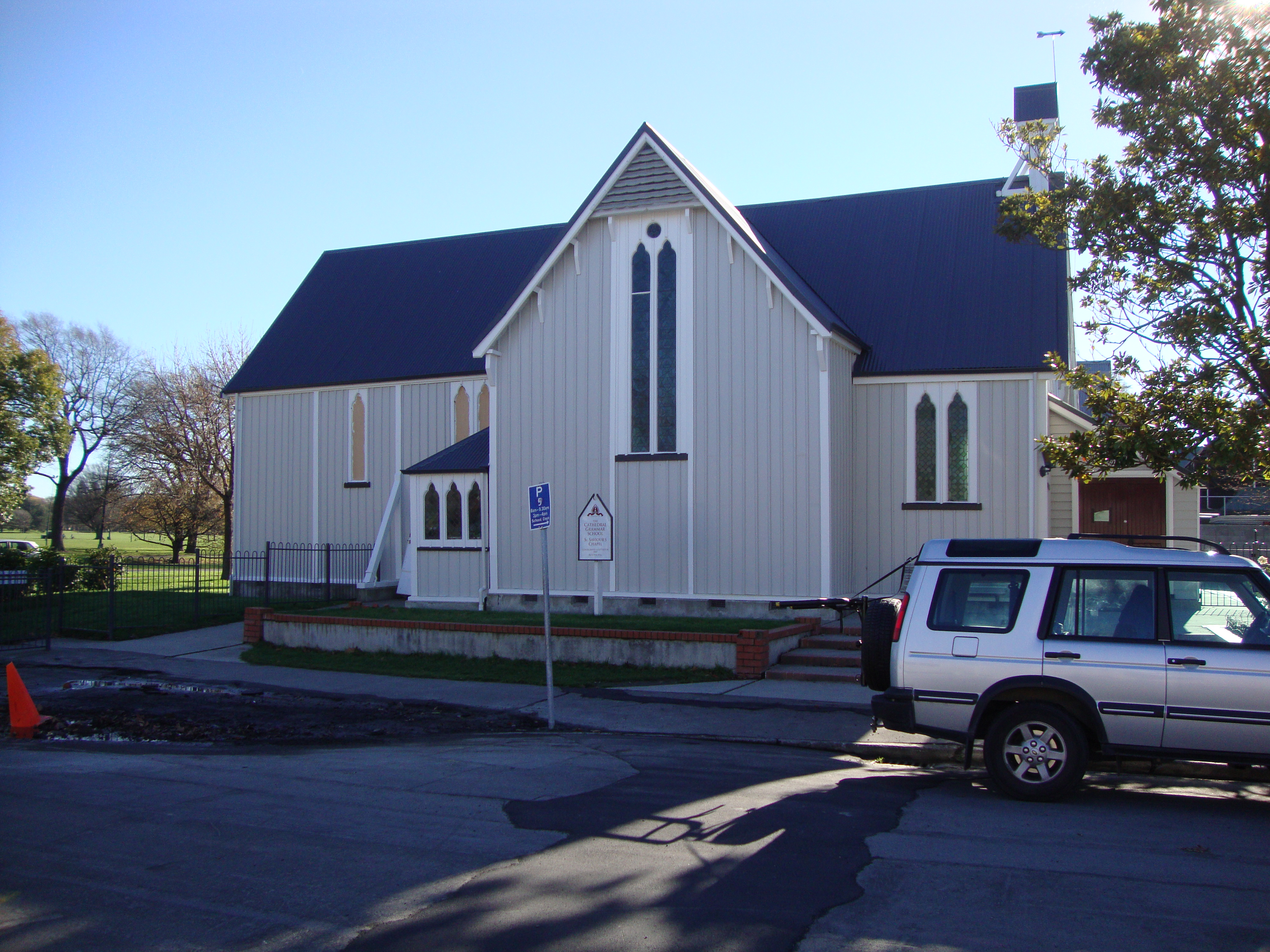 St Saviour's Anglican Church, Christchurch, in May 2011.